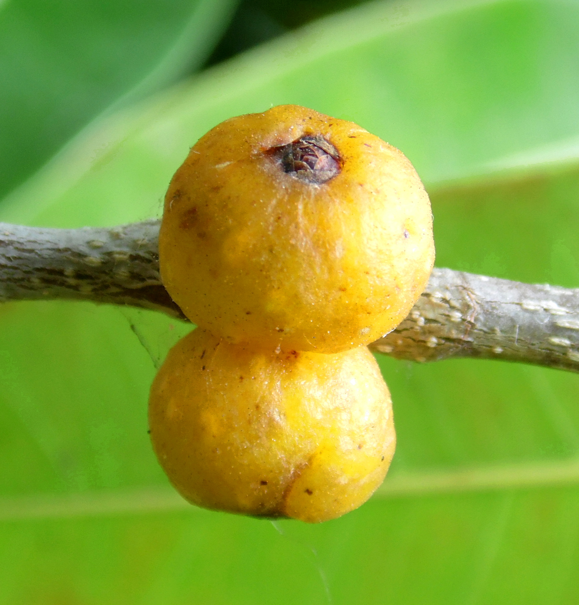 Ficus binnendijkii 'Alii' in Parque Botánico de Maspalomas (Gran Canaria)